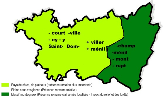 Suffixes of place names in the Vosges